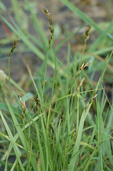 Picture taken in Commanster, Belgian High Ardennes . Species: Carex ovalis